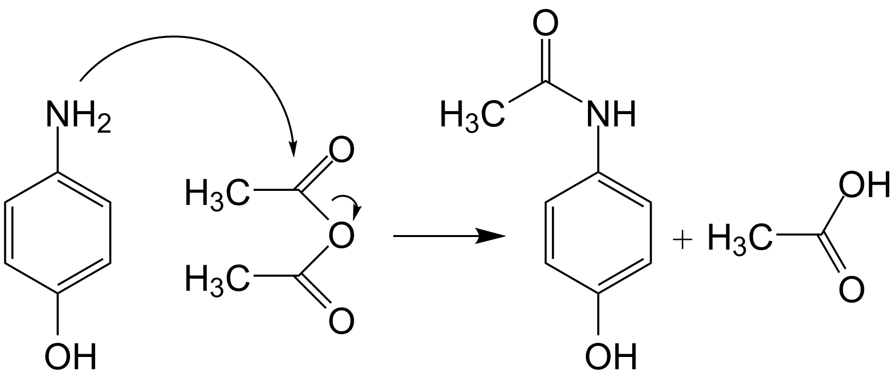 Synthesis of paracetamol